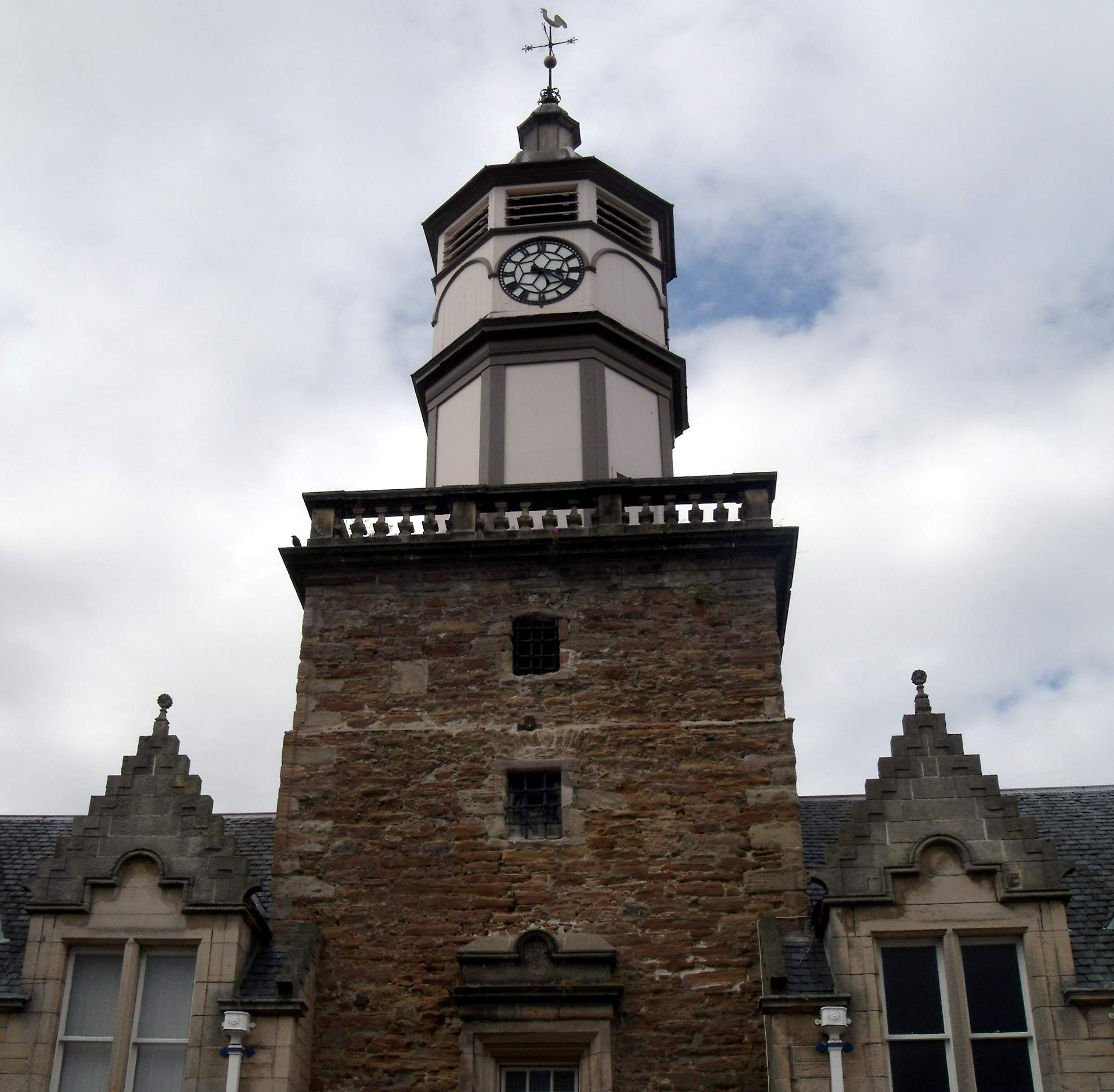 The random stone base of the tower (were they once cells, given the grilled covers? - it would be the toll booth) and wooden clocktower give this building a quaintness and uniquness. Couple that with the very Victorian "bookends" added when the building was extended, and it is one strange yet pretty building. It is no longer used for Local Authroirty adminstration and is now a local history museum.